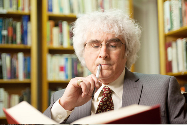 Daniel Sheehan photo.